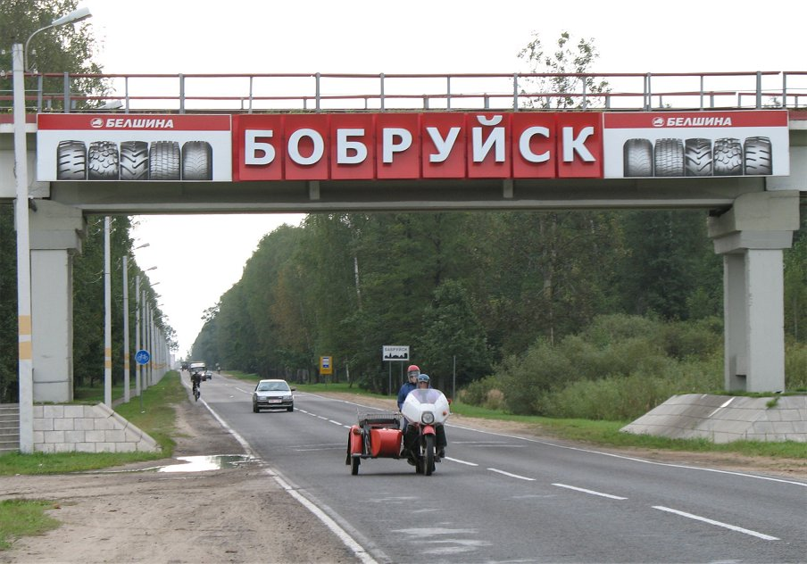 Bobruisk city sign located on the M5 highway (when arriving from Minsk), sponsored by Bobruisk based tyre factory Belshina.